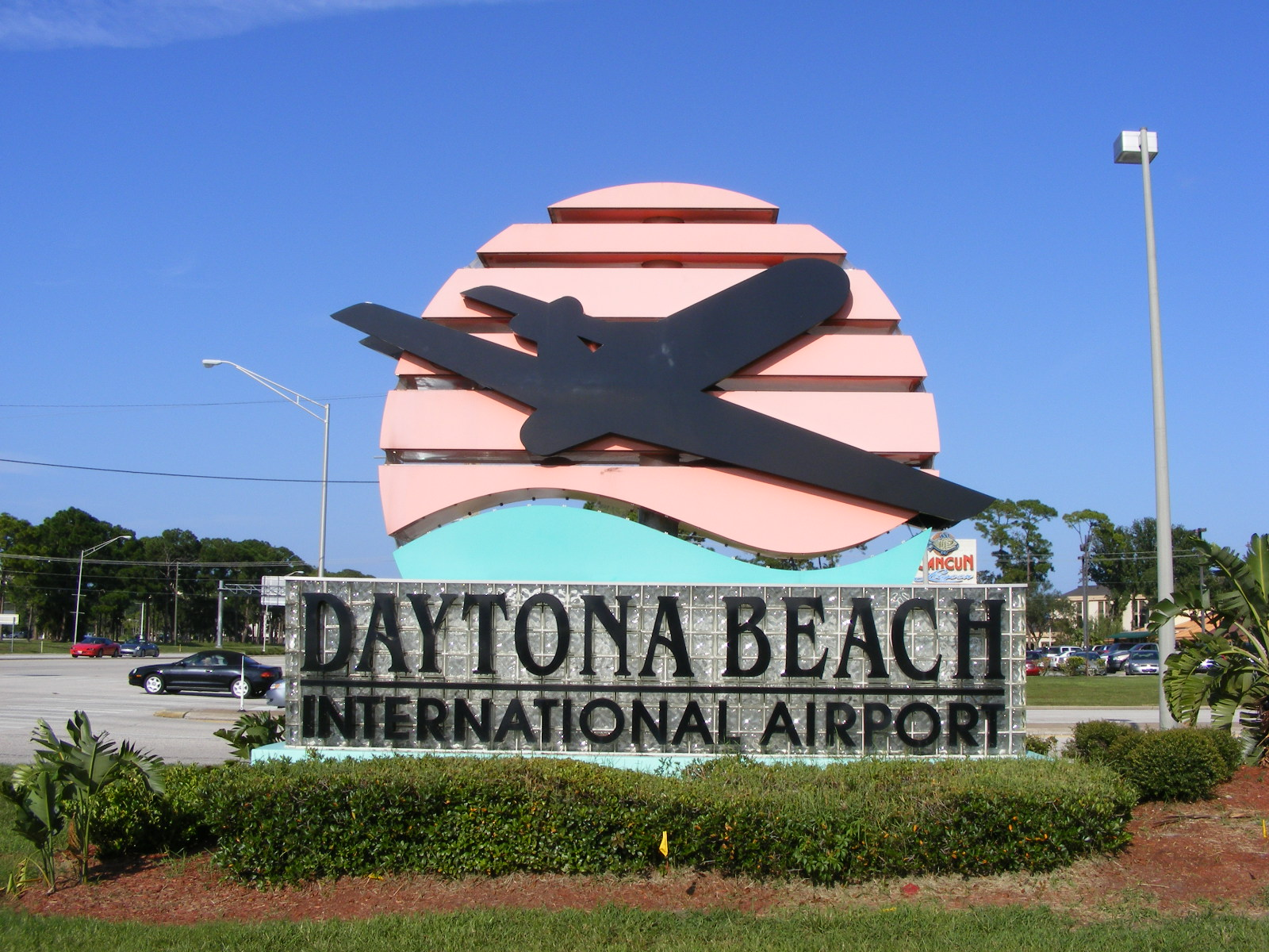 Entrance sign to Daytona Beach International Airport, visible along Route US 92.